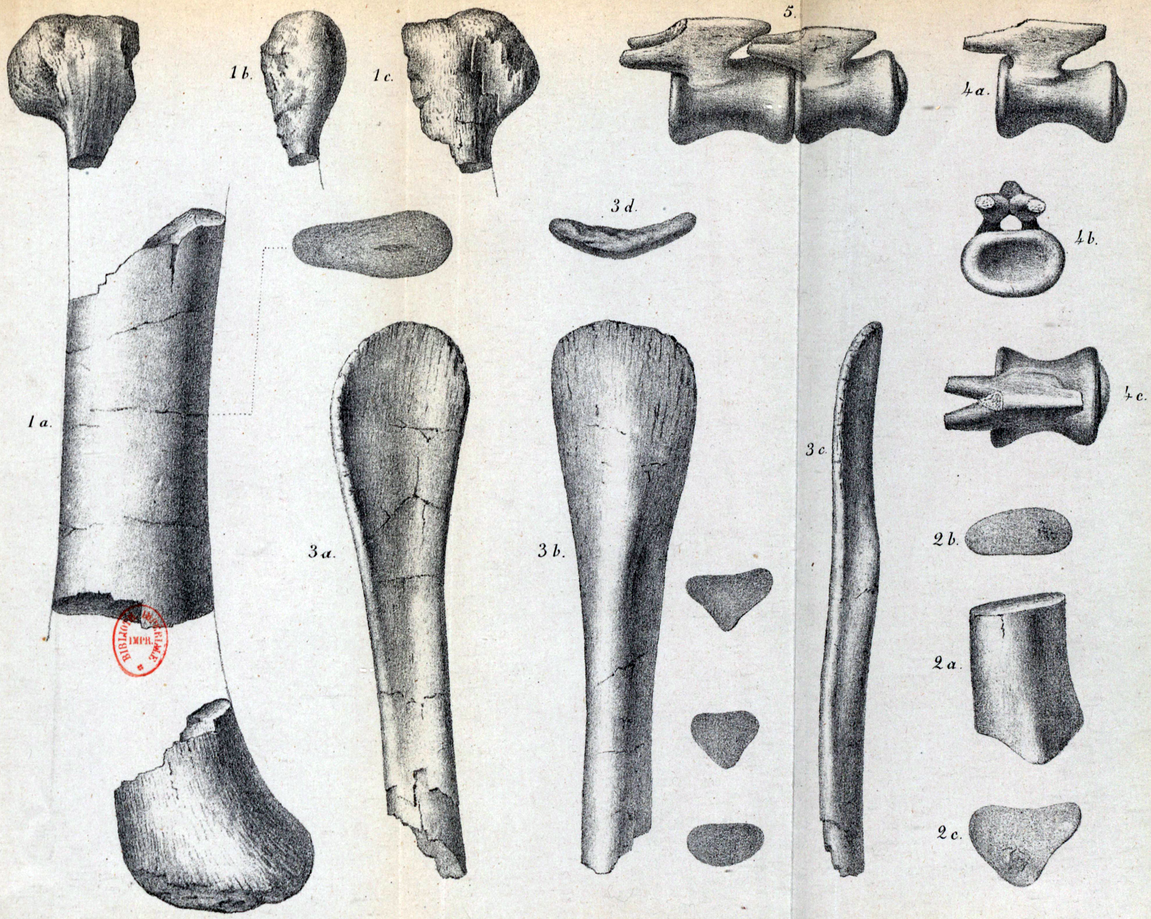 Holotype material of Hypselosaurus priscus (Matheron 1868): 1 - Large bone that appears to be a left femur. A - external Cote, with cross section. B - Fragment of the upper head, seen from the posterior side. C - Even fragment, seen from the inner side. 2 - left Tibia? A - seen by the inner face. B - upper section. C - lower section. 3 - Large bone that seems to be a fibula. A - tibial side. B - opposite face, with three cross section. C - seen in profile. D - upper head, seen above. 4 - posterior caudal vertebra. A - seen by the left side. B - seen by the anterior side. C - seen above. 5 - Two consecutive vertebrae caudal, seen by the left side.